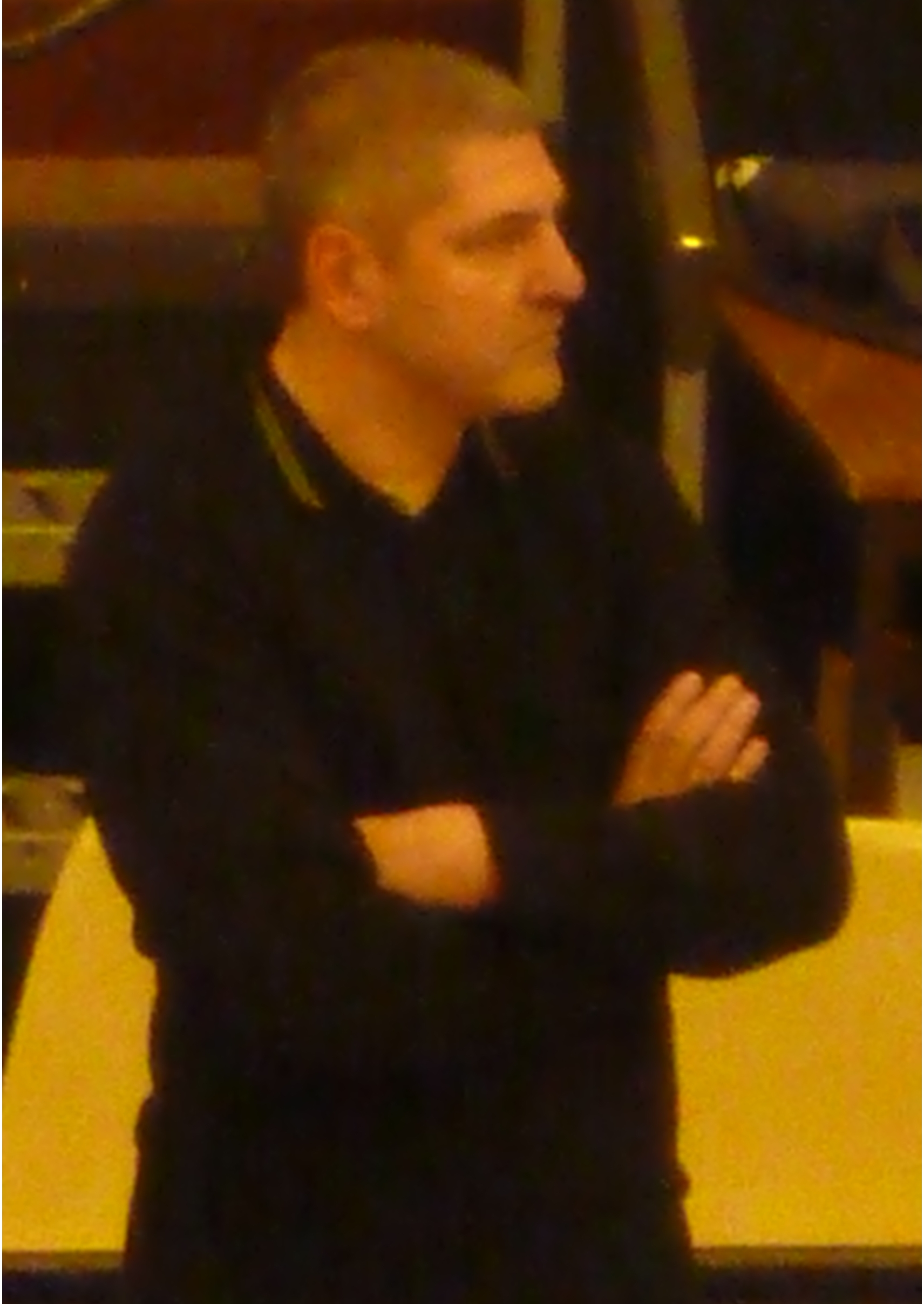 Olivier Hirsch, French basketball coach. Taken on Jan 27th at the Palais de sports de Clermont-Ferrand during a 3rd division game between Stade clermontois basket Auvergne (home team) and Le Puy-en-Velay (Hirsch's team).